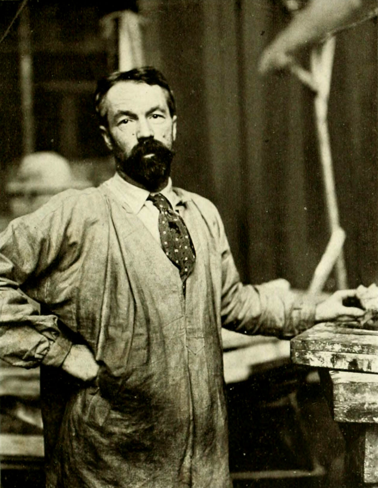 Karl Bitter portrait, published in 1907